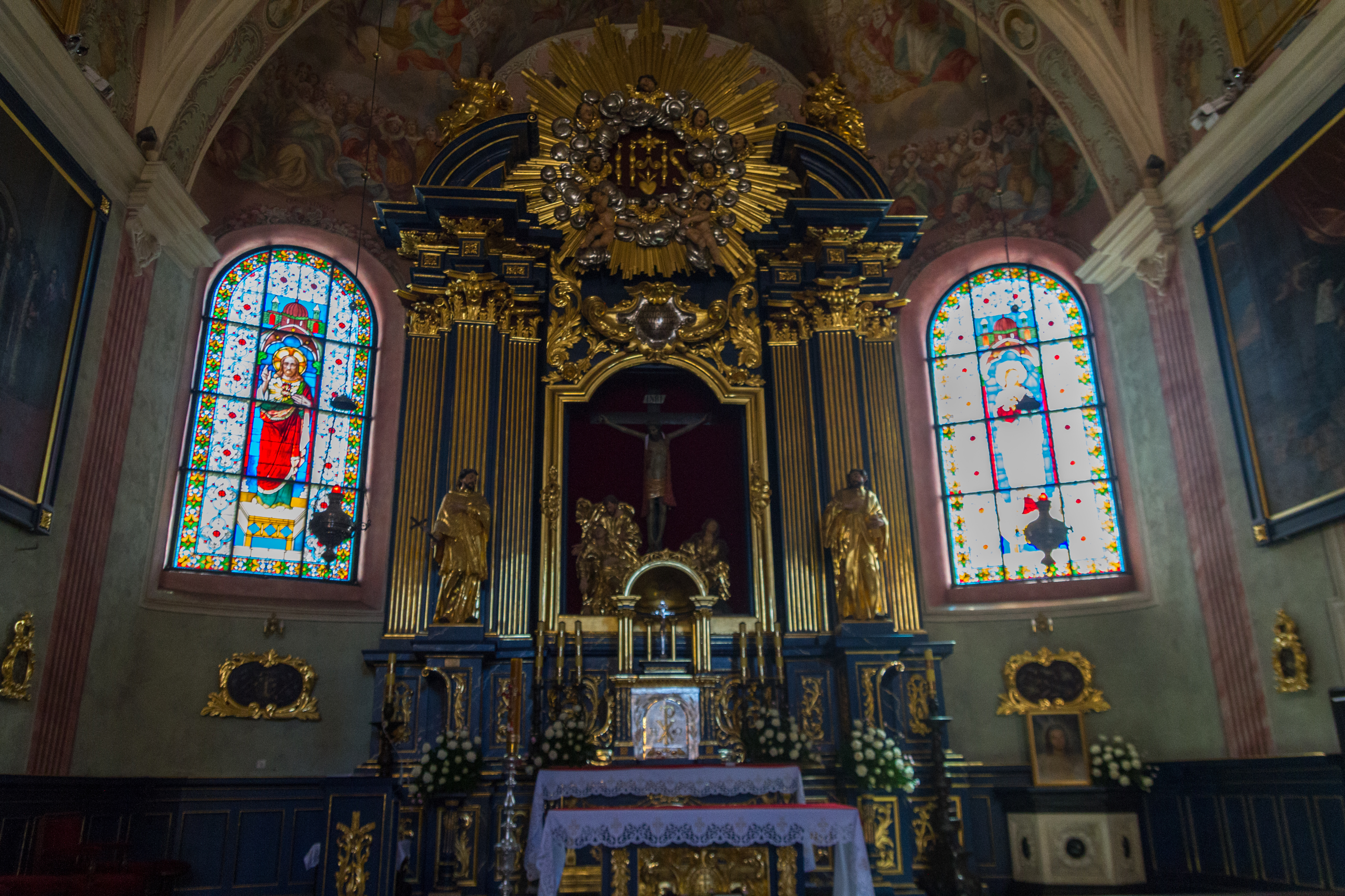 Interior of the Church of St. Barbara in Kraków